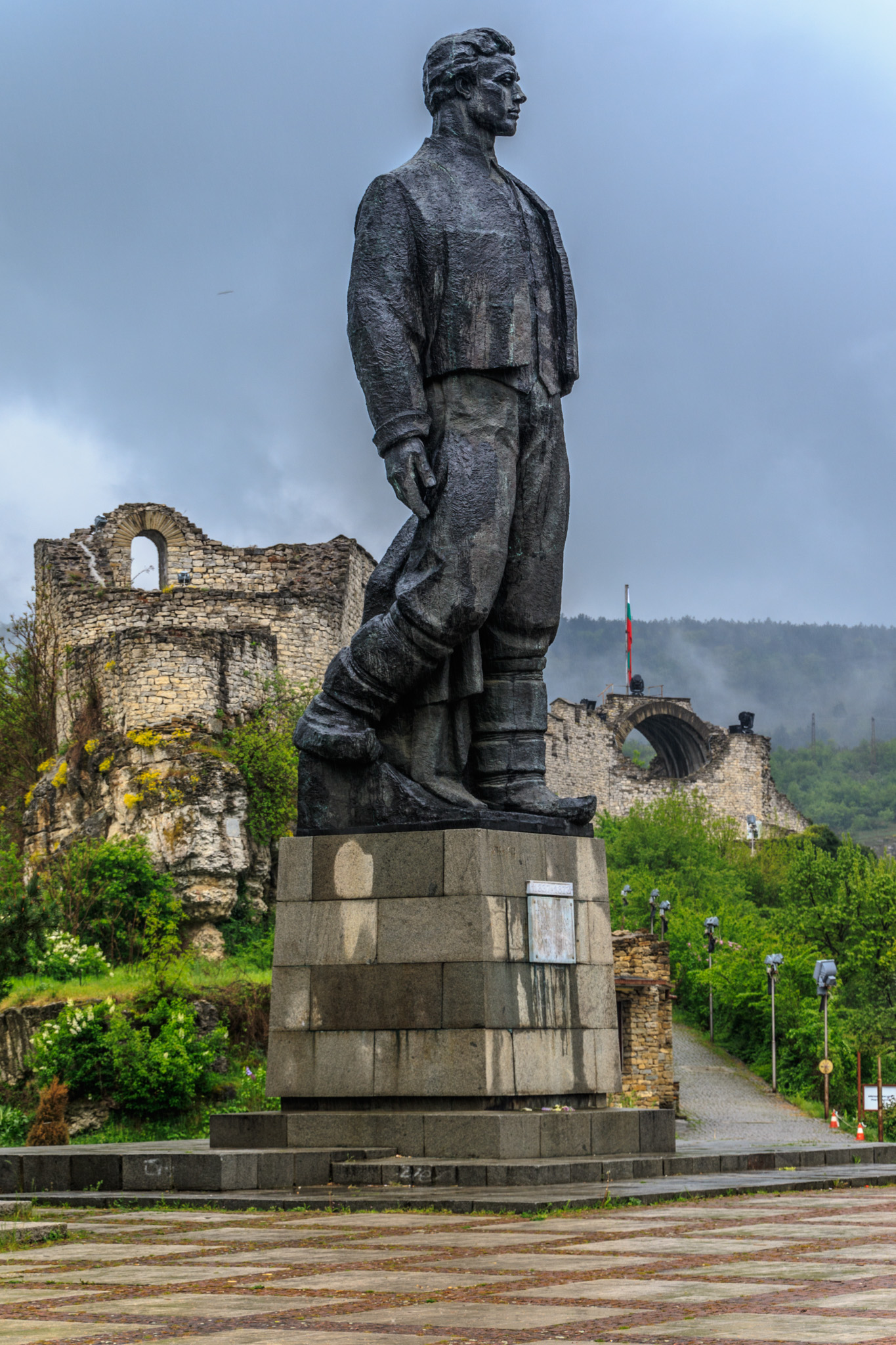 Architectural and historical reserve Varosha, Lovech: The monument of Vasil Levski